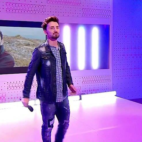 Singer Kriss Sheridan on Pytanie na Sniadanie TV Show, TVP2 Polish Television in Warsaw, Woronicza 17, 00-999 Warsaw, Poland.